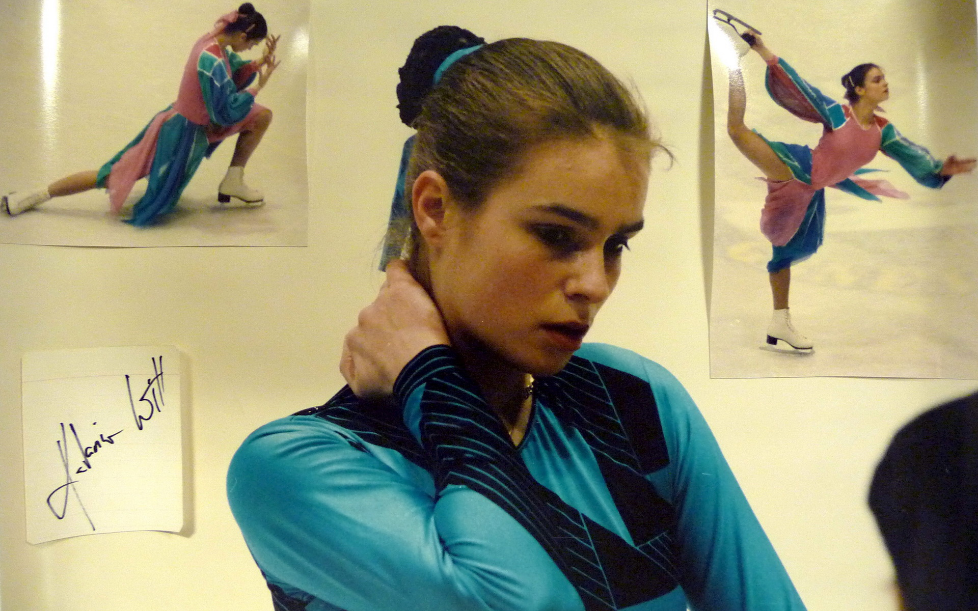 Katarina Witt during a rehearsal session in Geneva ice skating rink at the beginning of the world championship week in March 1986. Katarina was not posing for the photo: she looked very "inspired", listening and thinking about some remarks of her coach, Jutta Müller. The other two small photos were taken during the competion.